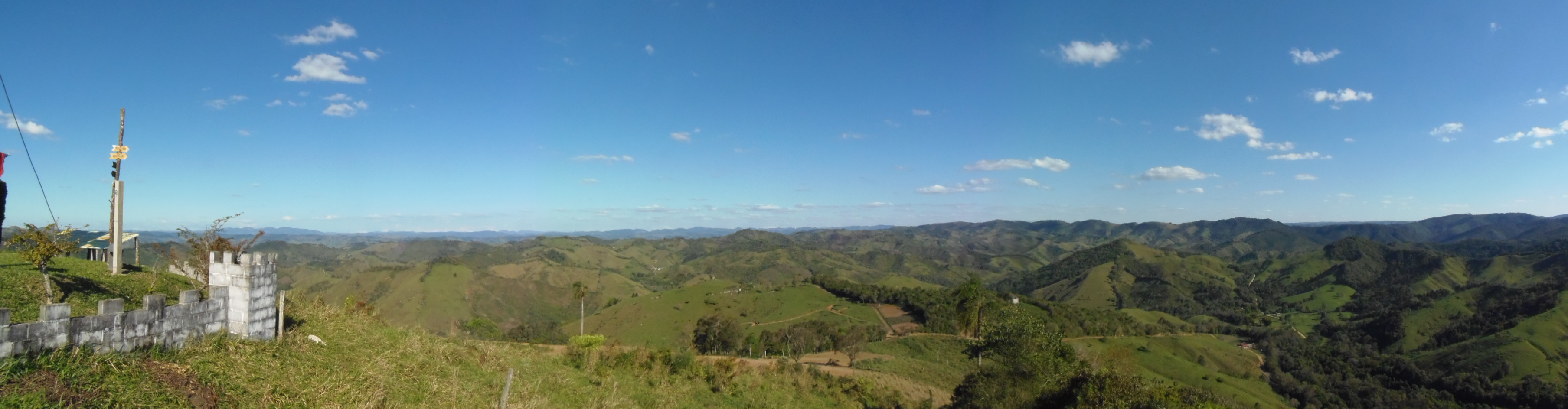 Castro - State of Paraná, Brazil